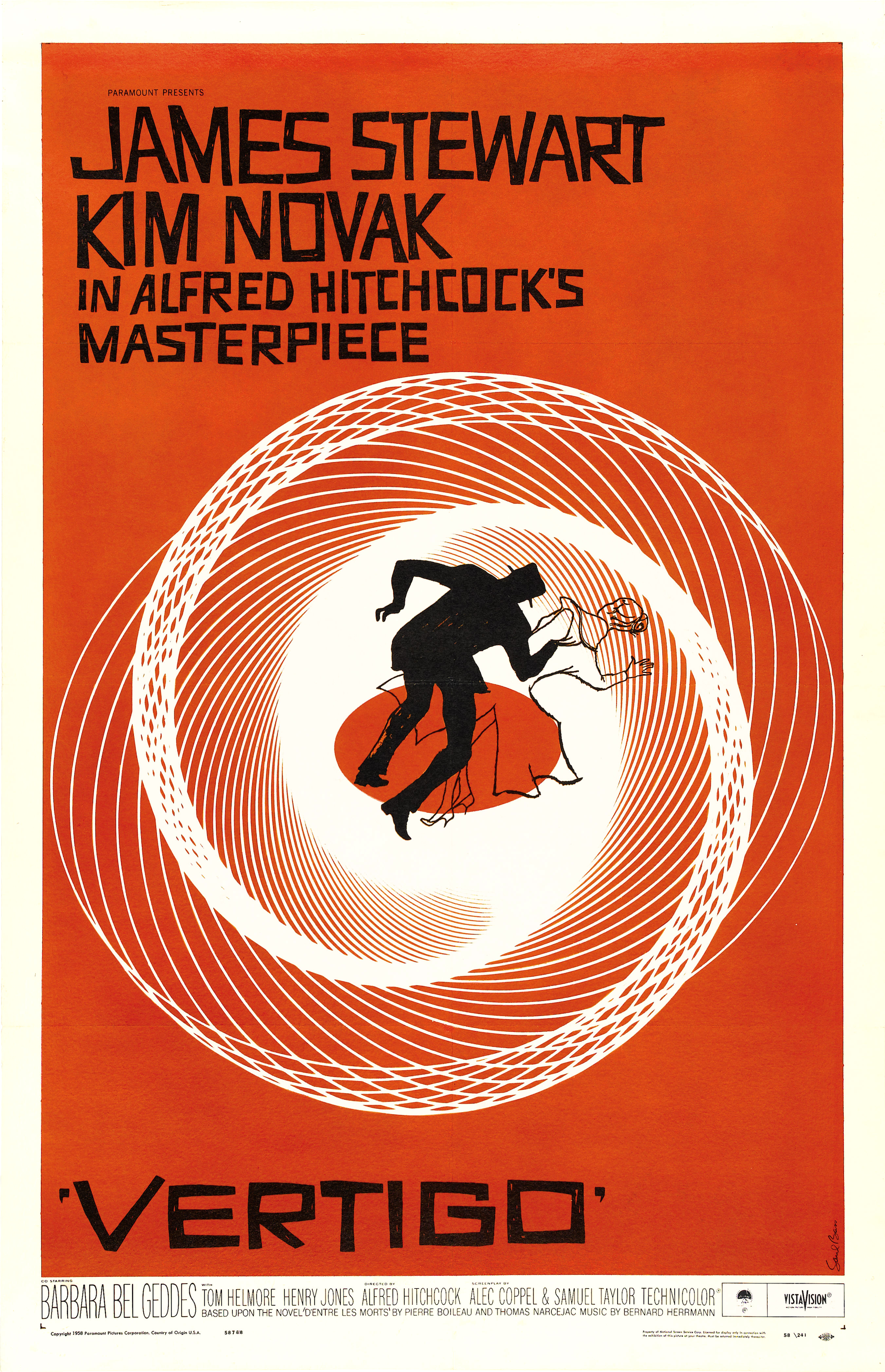 Theatrical poster for the film Vertigo